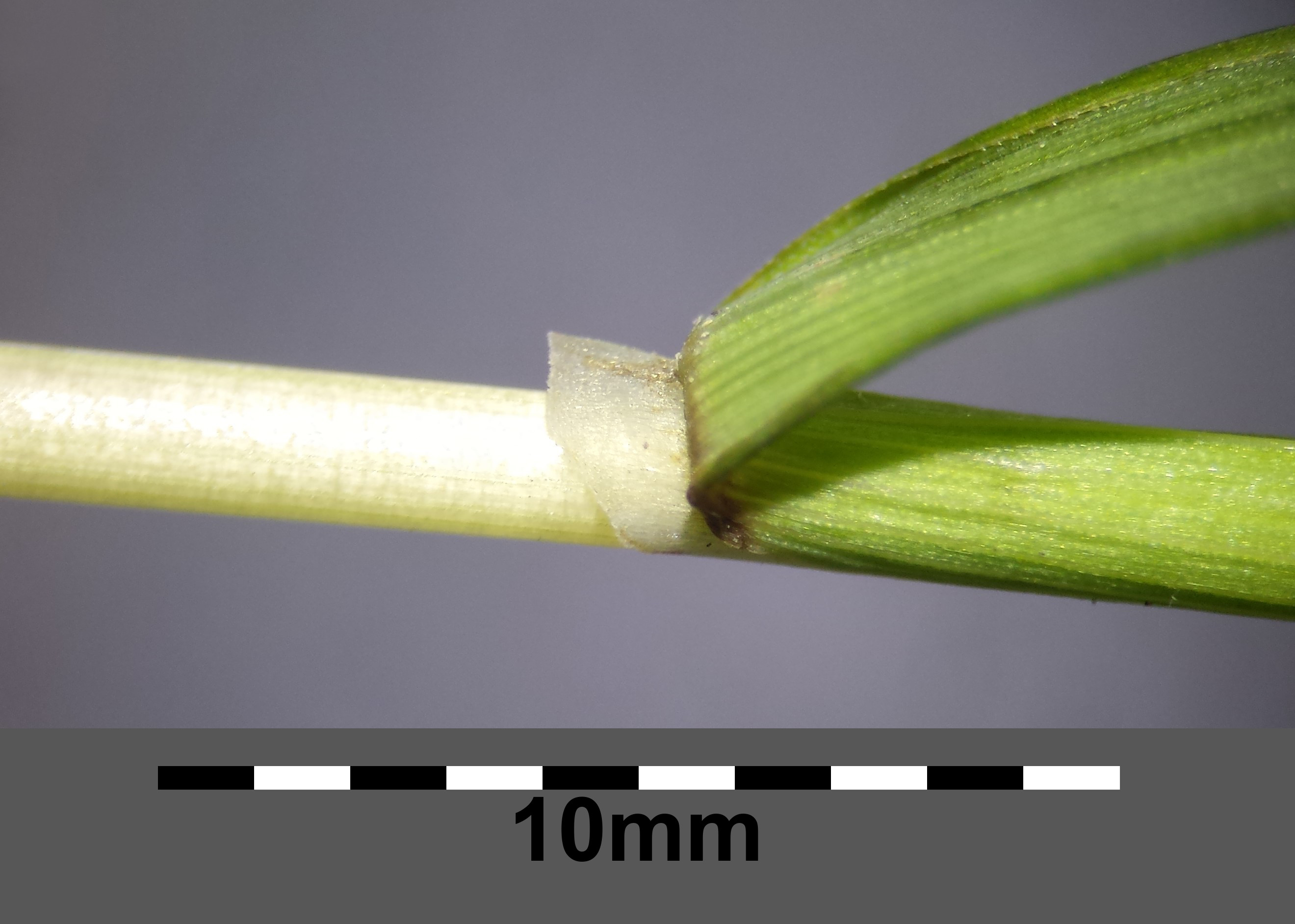 Stipe with leaf and ligule Taxonym: Briza media ss Fischer et al. EfÖLS 2008 ISBN 978-3-85474-187-9 Location: Rohrwald, district Korneuburg, Lower Austria - ca. 250 m a.s.l. Habitat: meadows